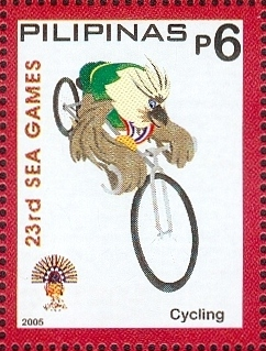 2005 Southeast Asian Games